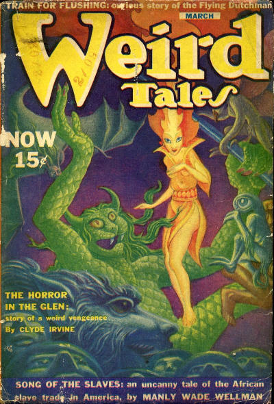 Cover of the pulp magazine Weird Tales (March 1940, vol. 35, no. 2) featuring The Horror in the Glen by Clyde Irvine. Cover art by Hannes Bok.